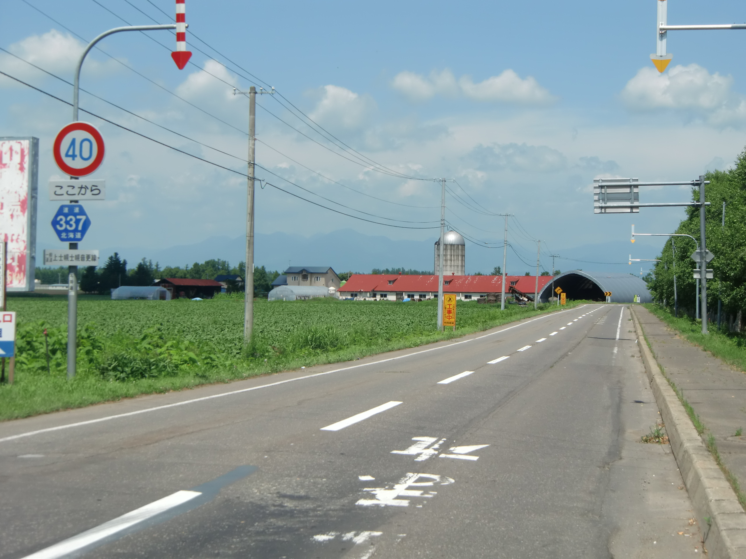 Hokkaido prefectural road 337(Kamishihoro-Shihoro-Otofuke line) in Komaba-Minami, Otofuke-town, Kato-county, Hokkaido, JAPAN.